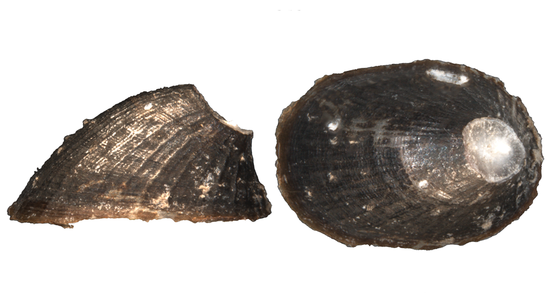 Specimen from the single extant Rhodacmea filosa population (Choccolocco Creek). This individual has lost its apex.